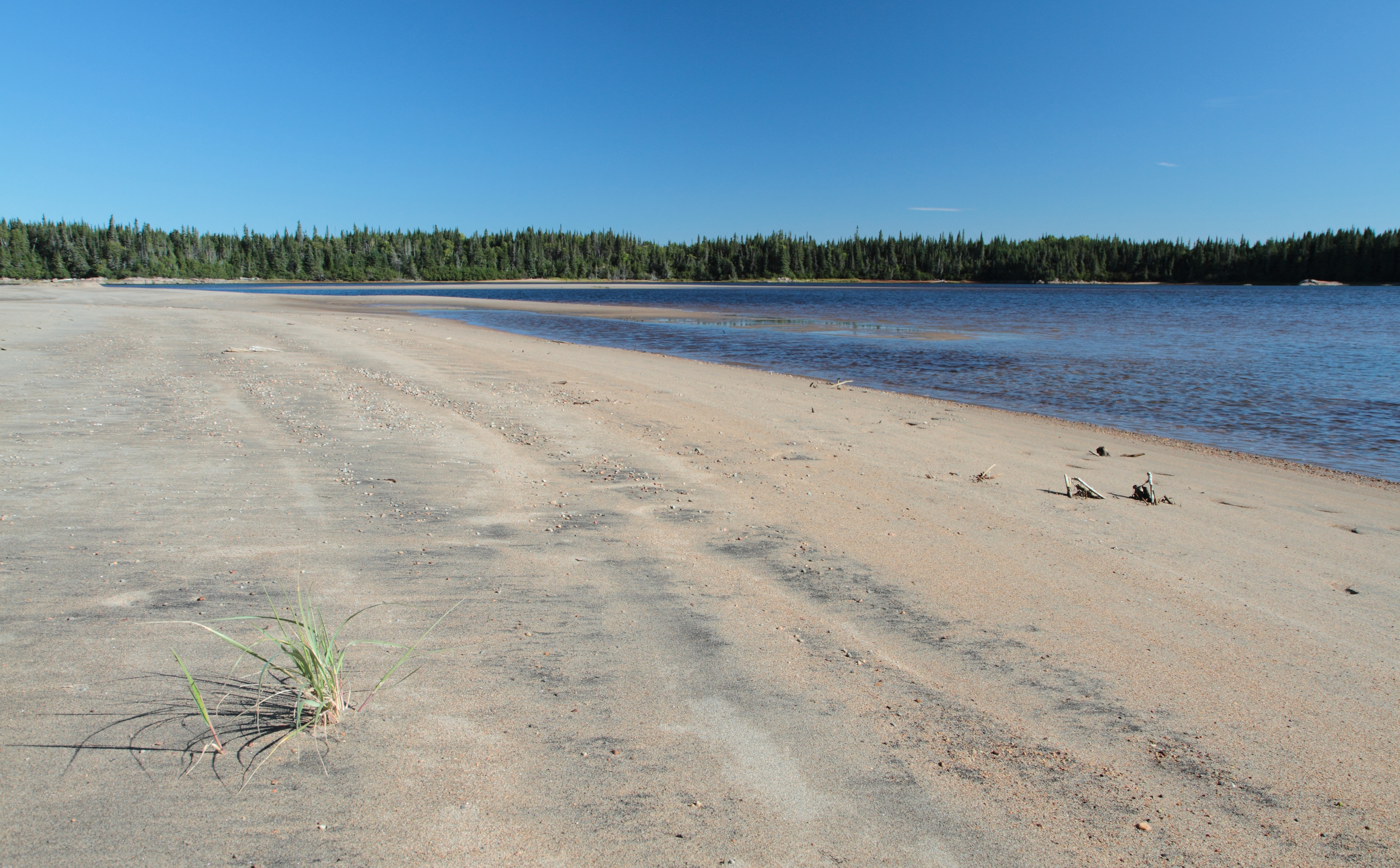 Beach on Mingan river not far from Longue-Pointe-de-Mingan, Quebec, Canada